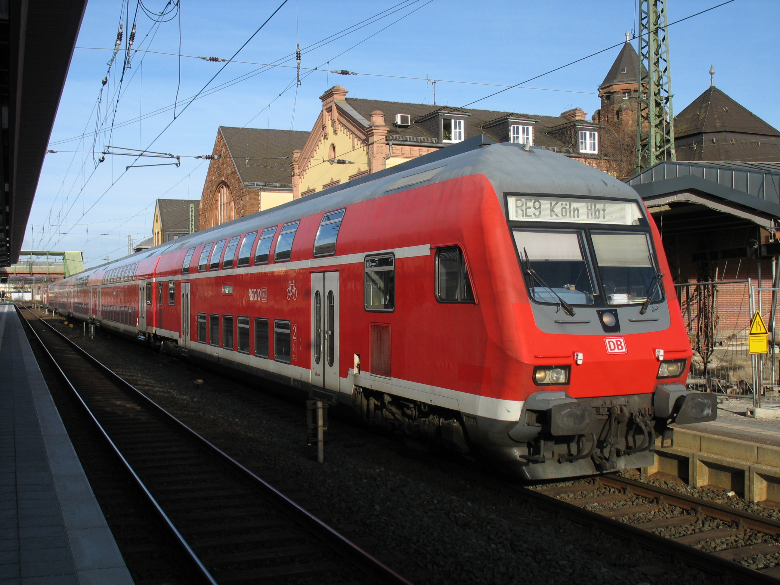 Double decker coaches forming the Regionalexpress service from Giessen to Cologne.